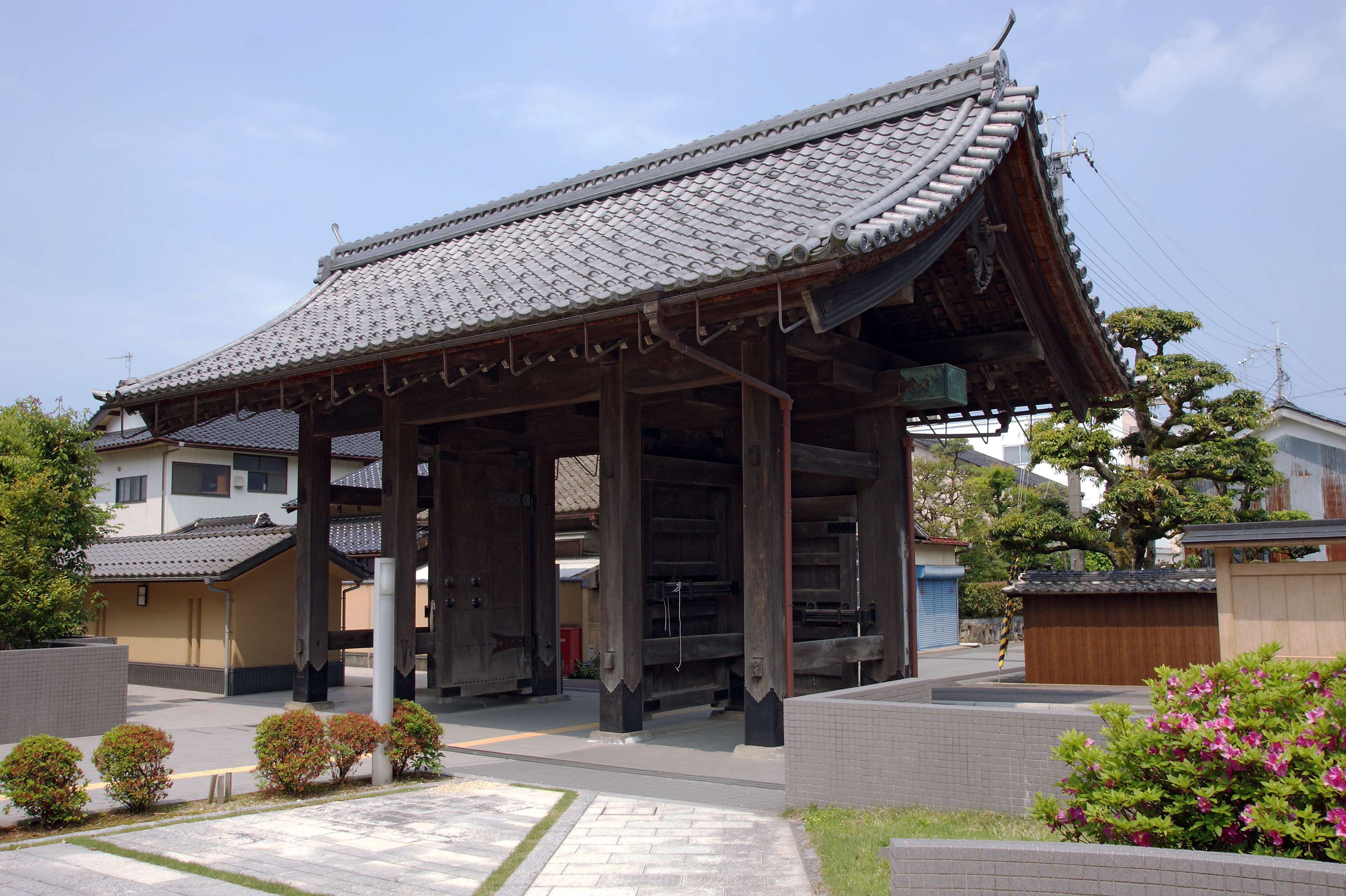 Toyooka City Library in Toyooka, Hyogo prefecture, Japan